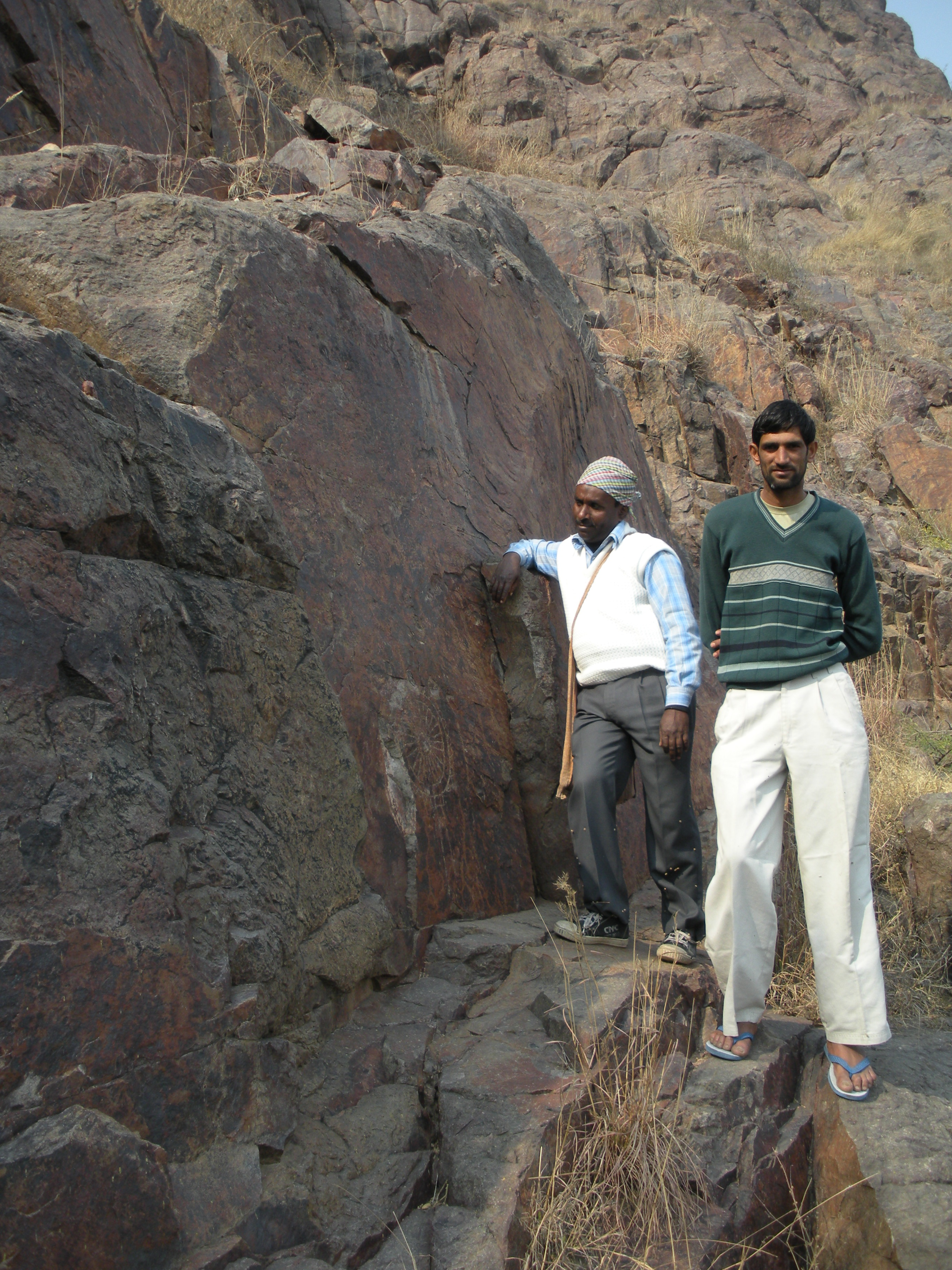 Rock face with Tosham inscription.